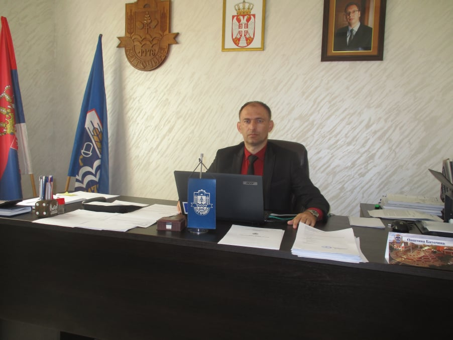 Zdravko Mladenovic is the president of Batocina municipality Srpski (latinica): Zdravko Mladenović je predsednik opštine Batočina